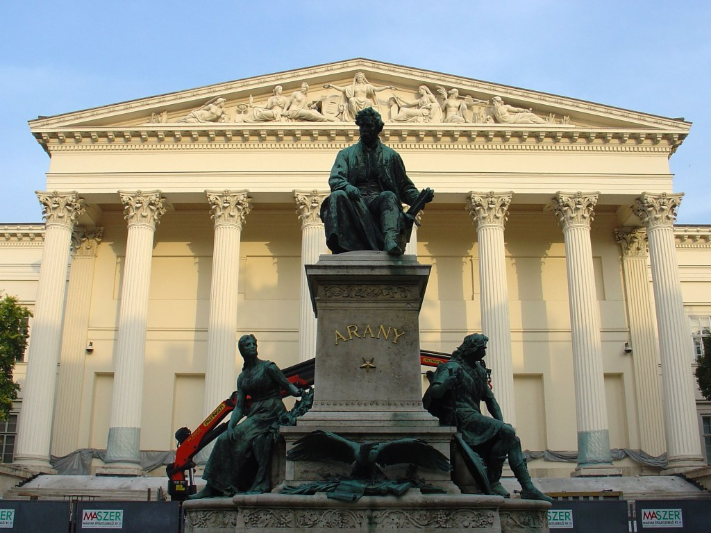 Statute of János Arany in Budapest